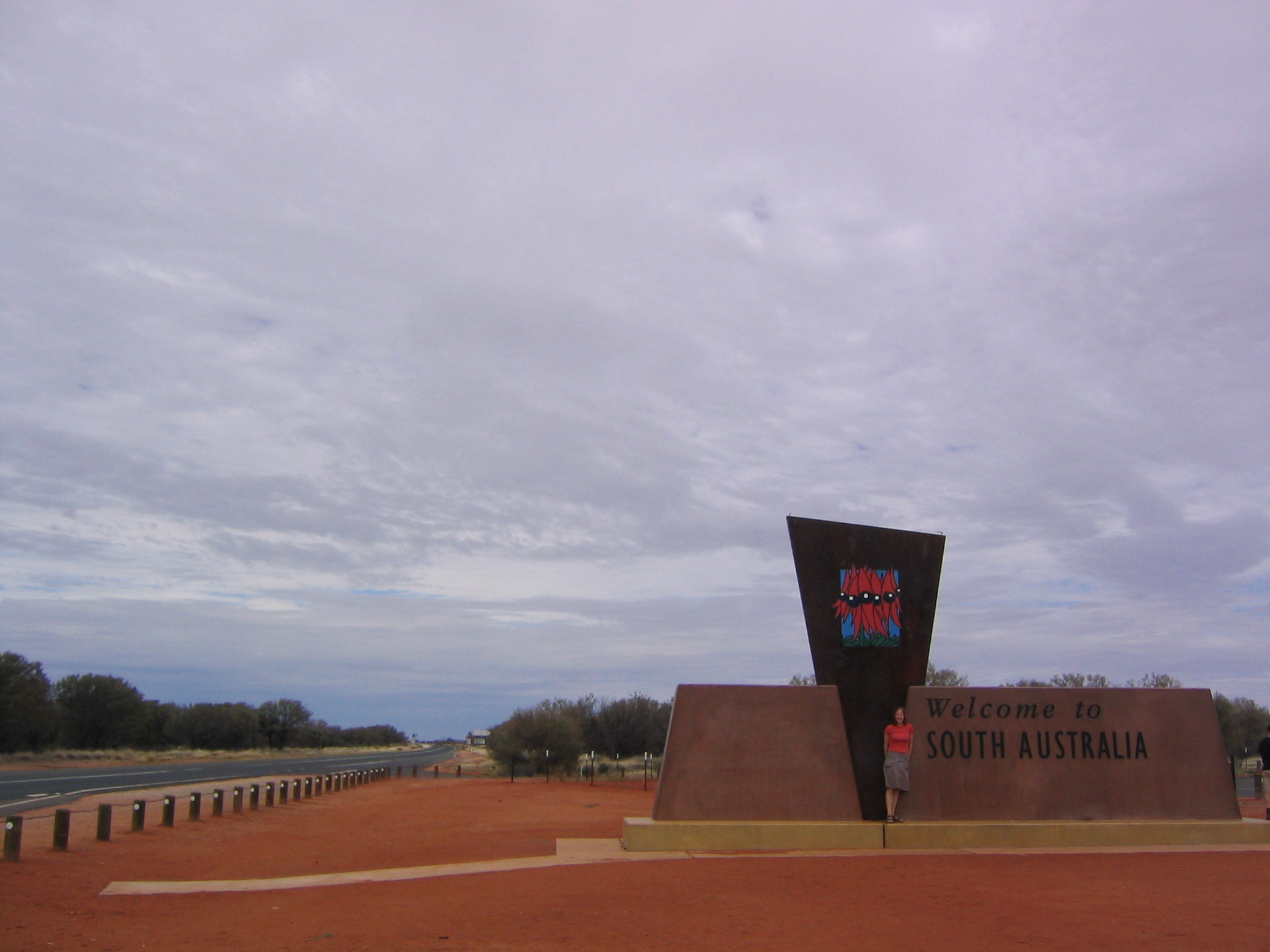 Stuart Highway. Welcome to South Australia